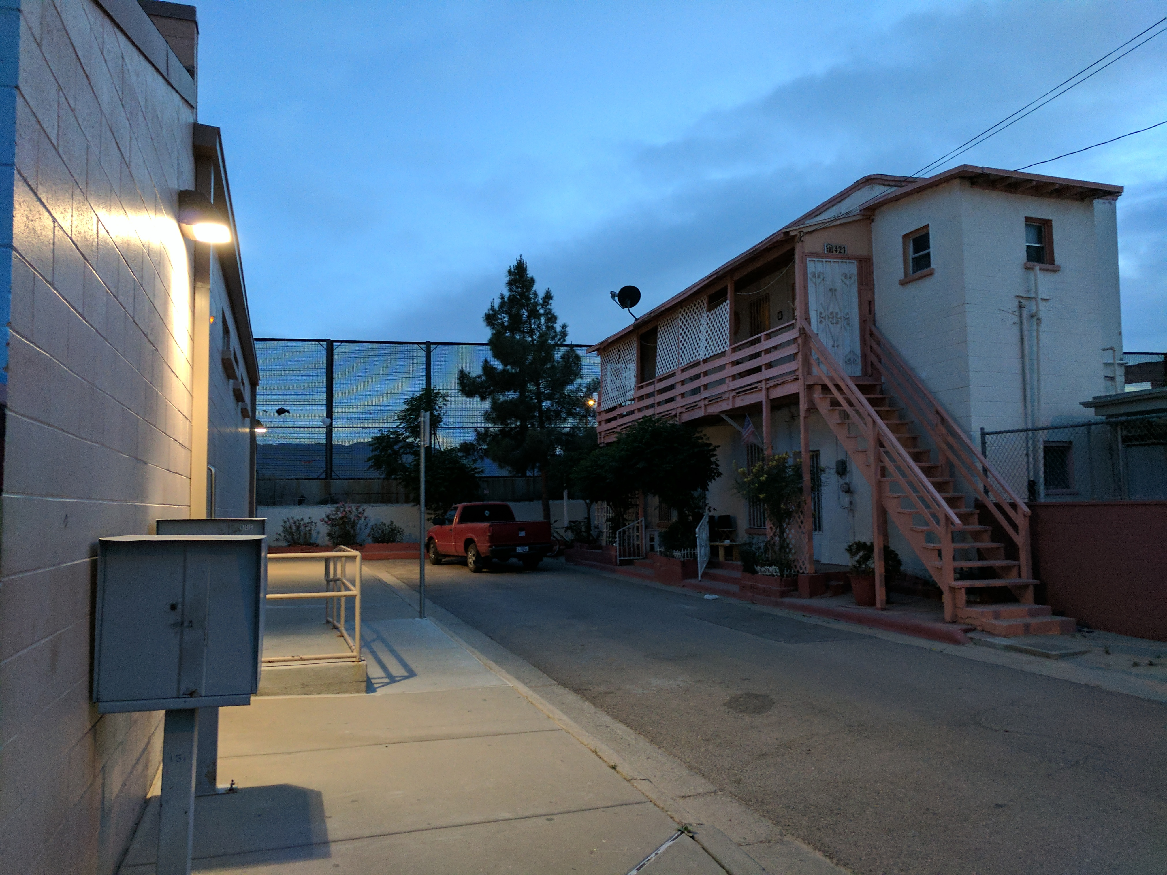 Chihuahuita, a neighborhood in El Paso. April of 2017.